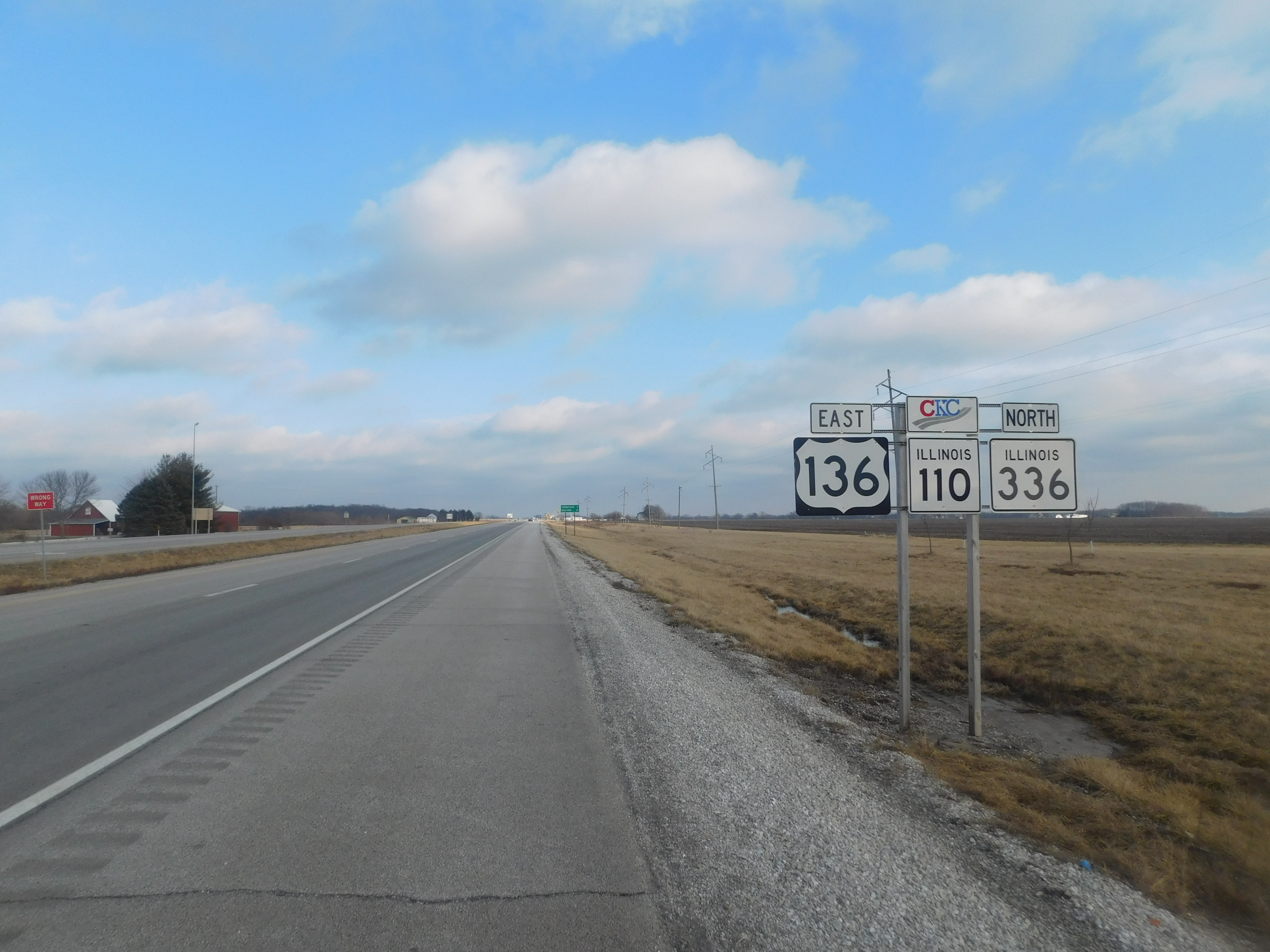 US 136, IL 110 and IL 336 in McDonough County, Illinois.